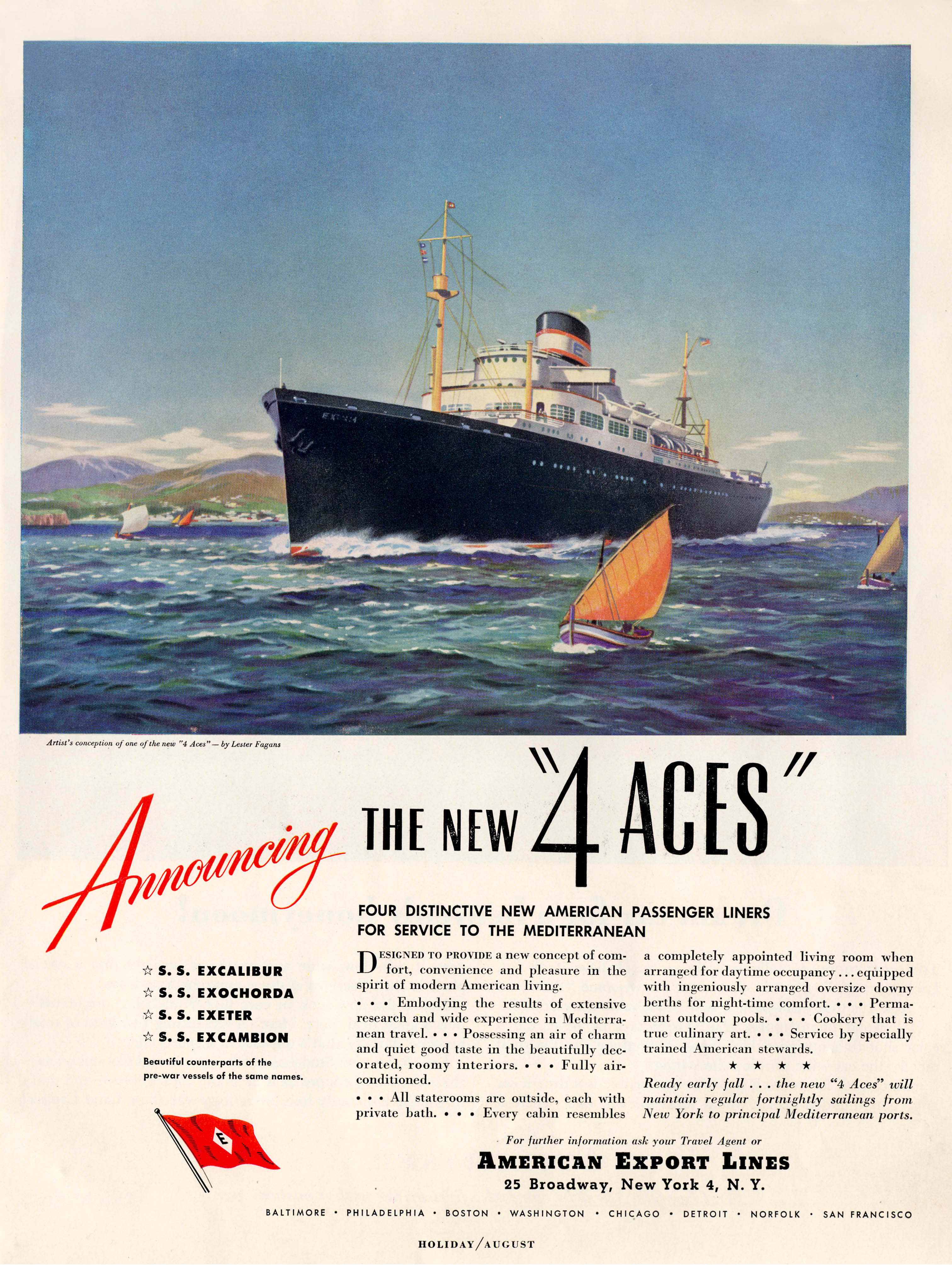 The New "4 Aces" print advertisement by American Export Lines. The ad features a rendition of one of the four ships, by artist Lester Fagans.